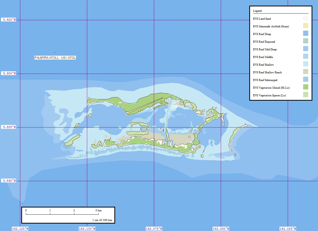 Map created using Marplot Mapping Software